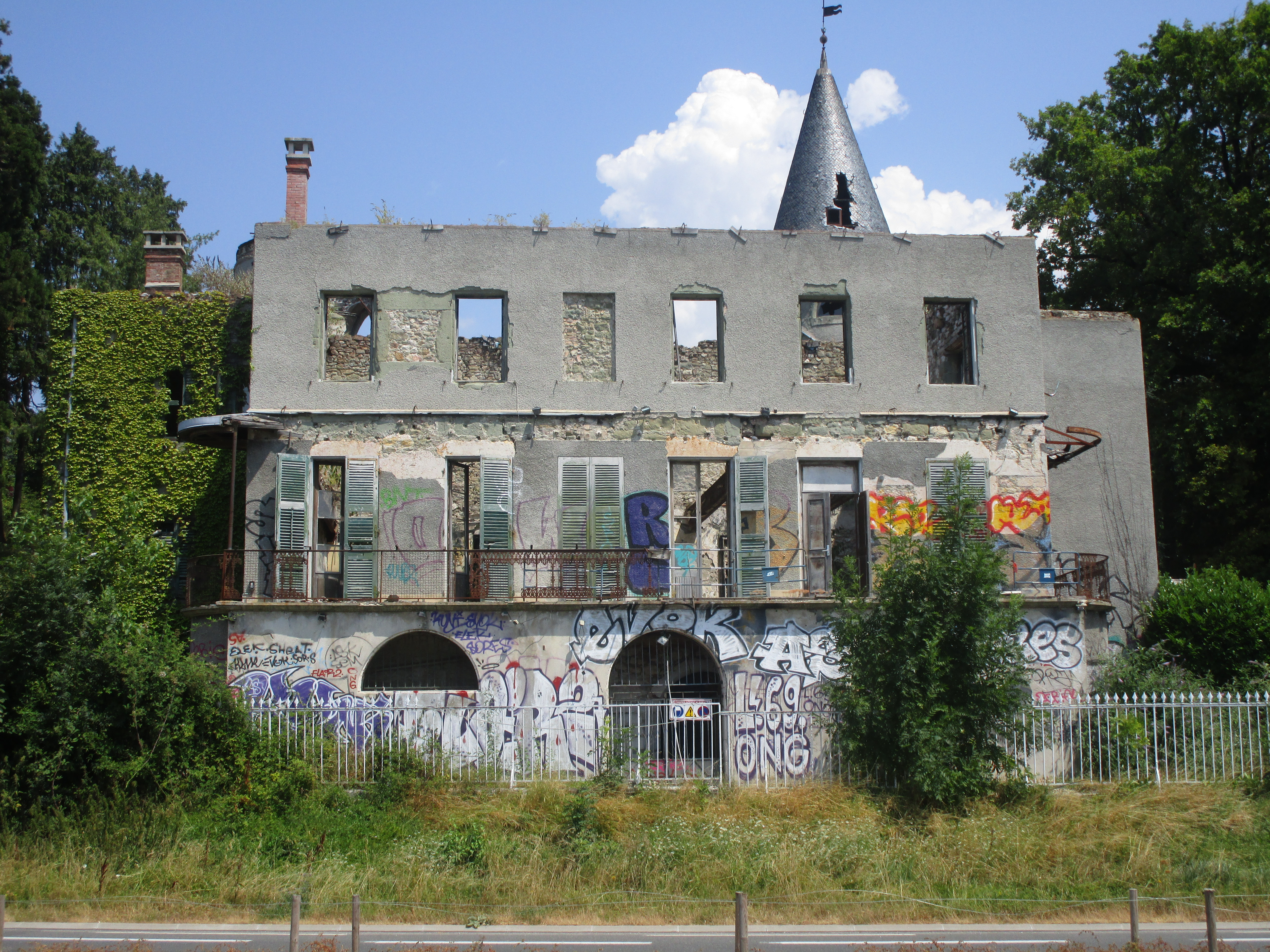 The ruins of the château de Bonport at Tresserve on July 17, 2015.